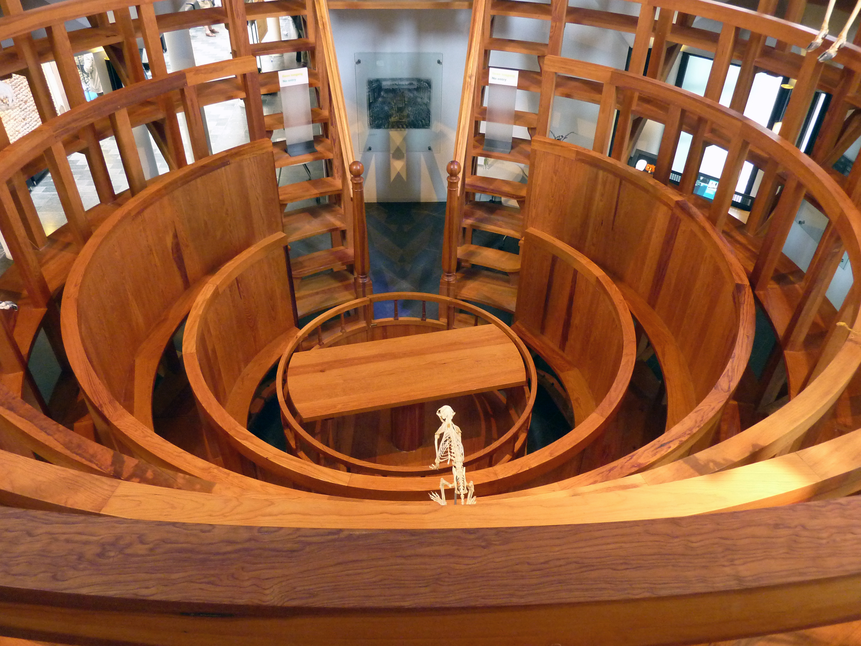 Museum Boerhaave, Leiden - Anatomical Theatre